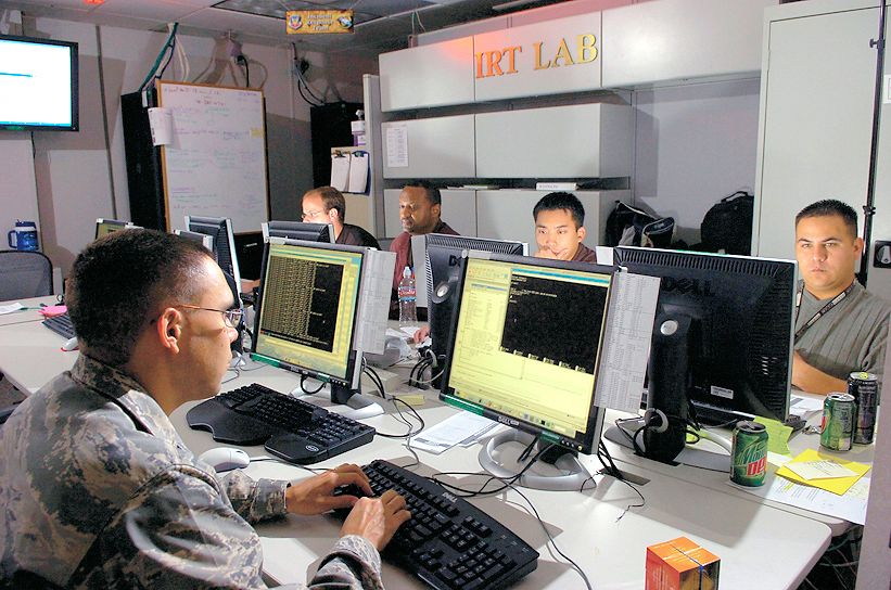 First Lt. Orlando Garcia responds to potential threats in the Incident Response Team Net Forensics Lab. Members of the team have two minutes to evaluate incoming threats.